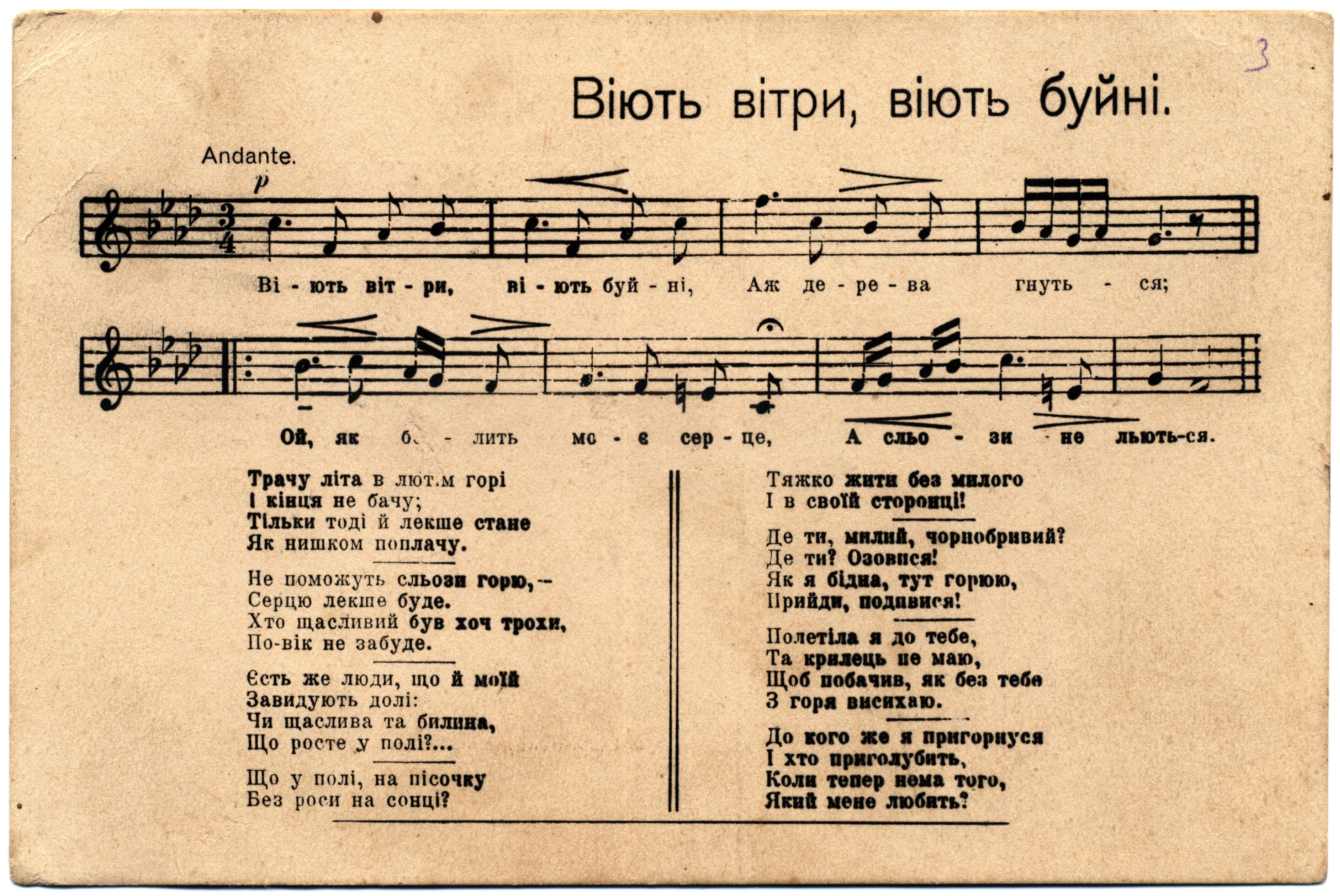 Postcard with lyrics and music of folk song.